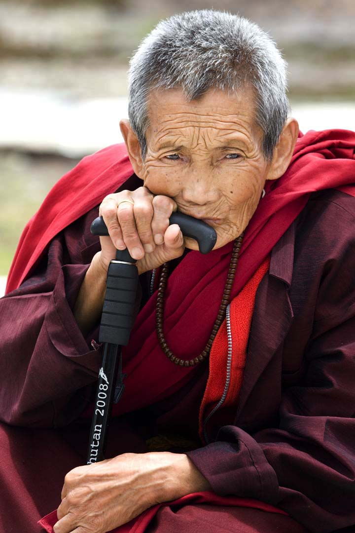 Bhutanese nun